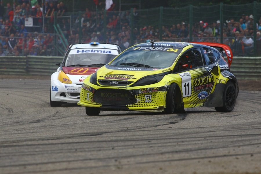 US racer Tanner Foust and his 560bhp Ford Fiesta Mk7 4x4 pictured in action during the finals of the 2011 Belgian round of the FIA European Championships for Rallycross Drivers at the Duivelsbergcircuit in Maasmechelen.